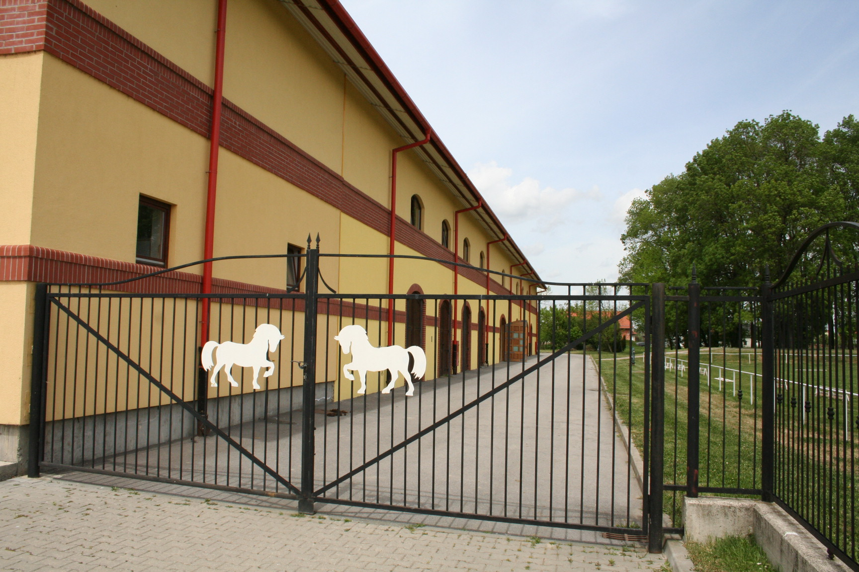 The Stallion Stable in Đakovo, part of State Stud Farm in Đakovo (Croatia).